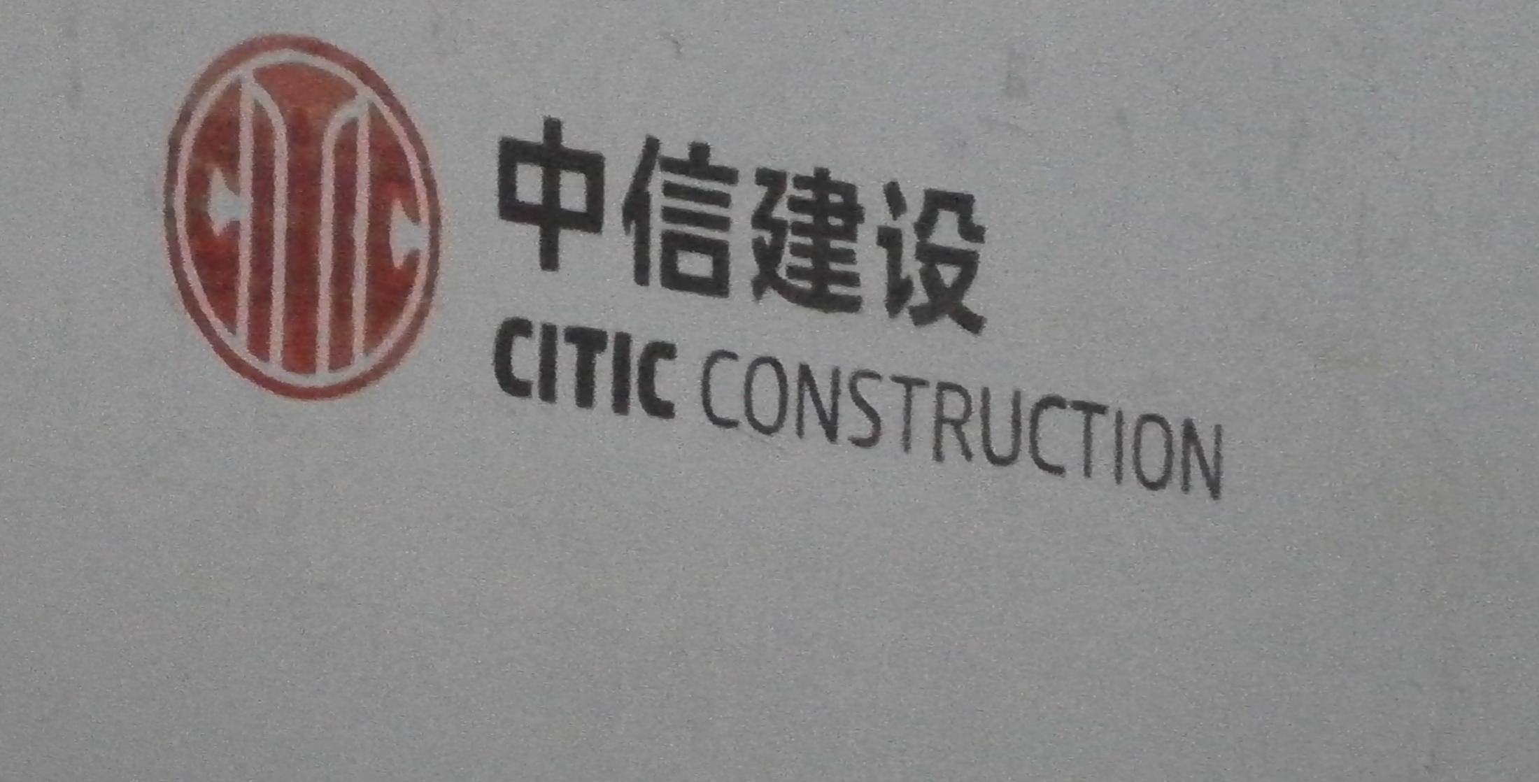 Empresa China encargada de la Misión Vivienda en Fuerte Tiuna, Caracas